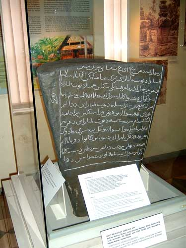 By Mohd Hafiz Noor Shams. User: __earth. At National History Museum, Kuala Lumpur, Malaysia. Taken on January 22 2006. [1]